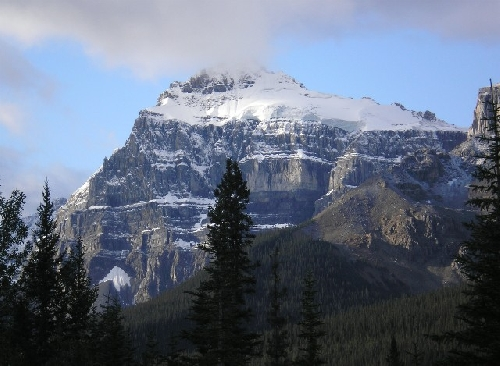 Epaulette Mountain seen from the north along Icefields Parkway